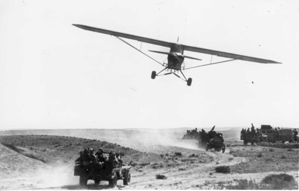 The Palmach, Israel Defense Forces